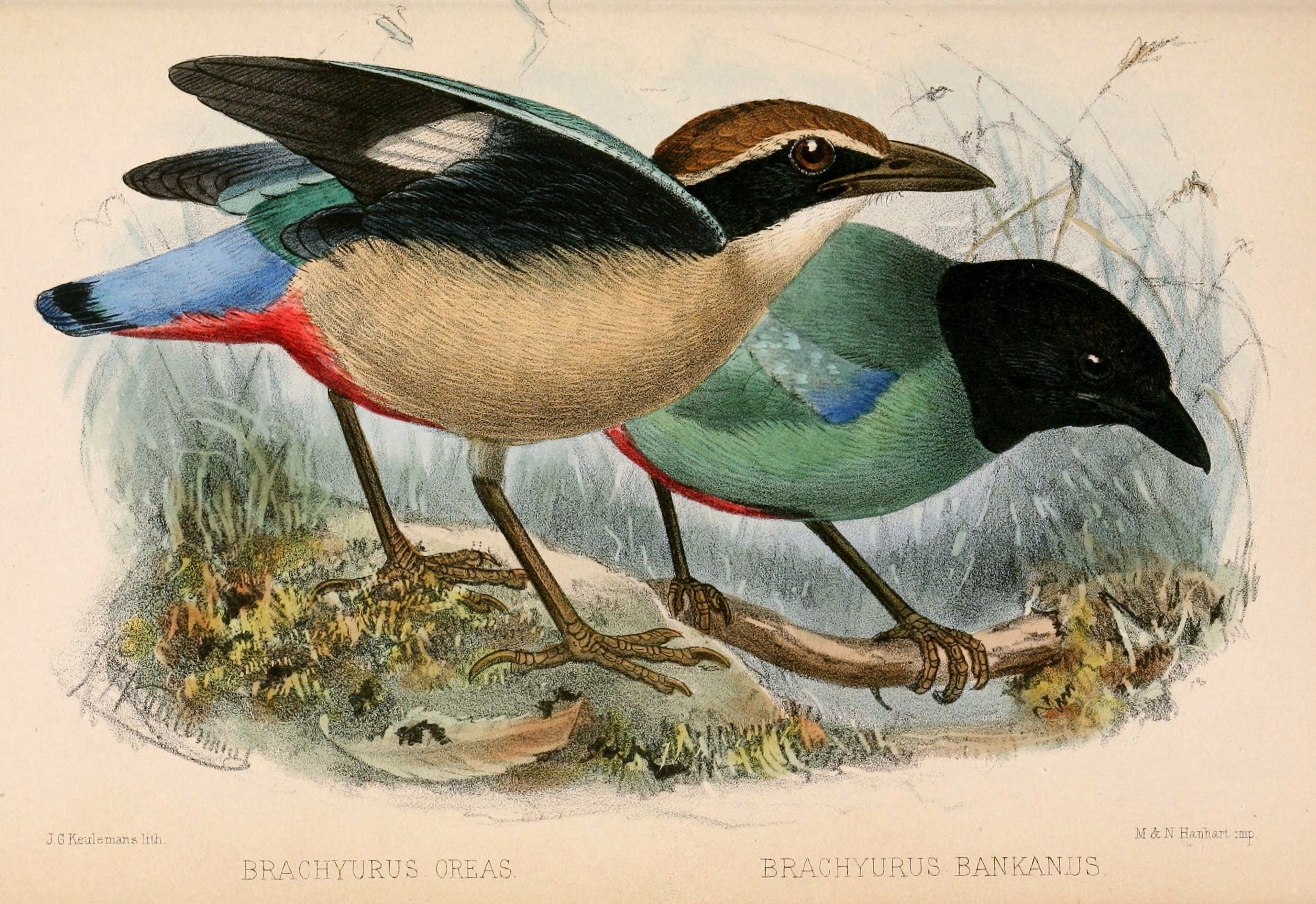 « Brachyurus oreas » = Pitta nympha (Fairy Pitta) « Brachyurus bankanus » = Pitta sordida (Hooded Pitta)